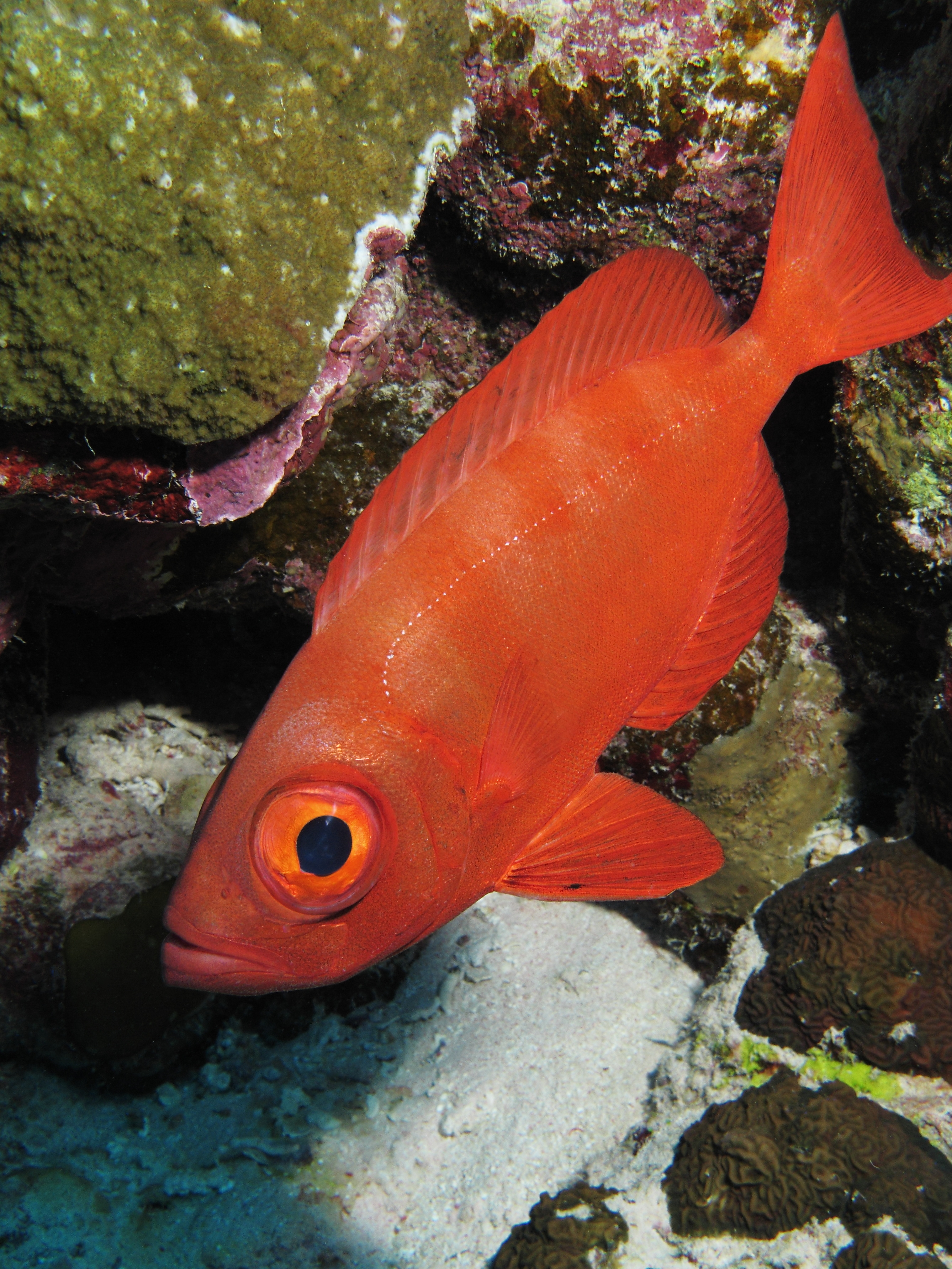 Moontail bullseye (Priacanthus hamrur) at Dangerous reef (Red Sea, Egypt)